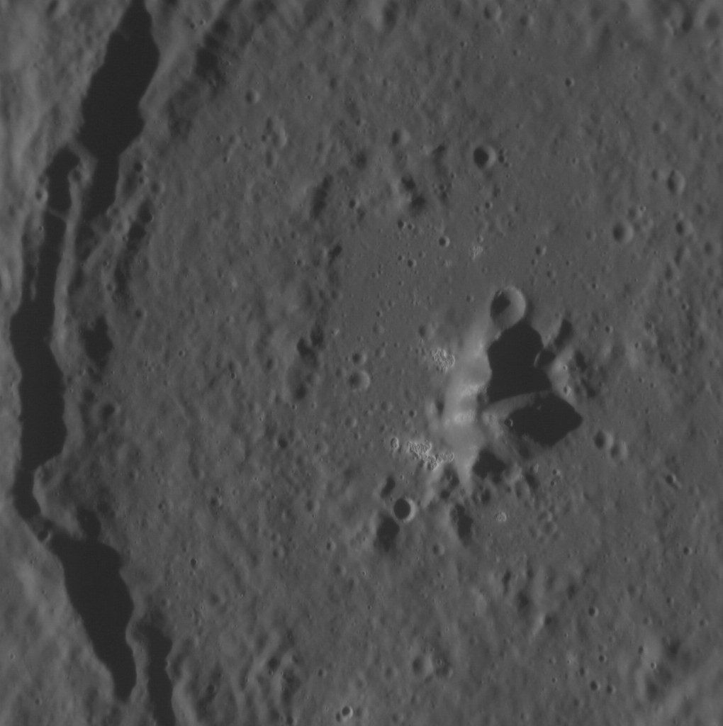 Lu Hsun crater on Mercury. MESSENGER Narrow Angle Camera. At least two patches of hollows are visible on the west side of the central peak. Emission Angle: 30.1 Incidence Angle: 73.5 Latitude: 0.0 Longitude: 336.0 Phase Angle: 103.6